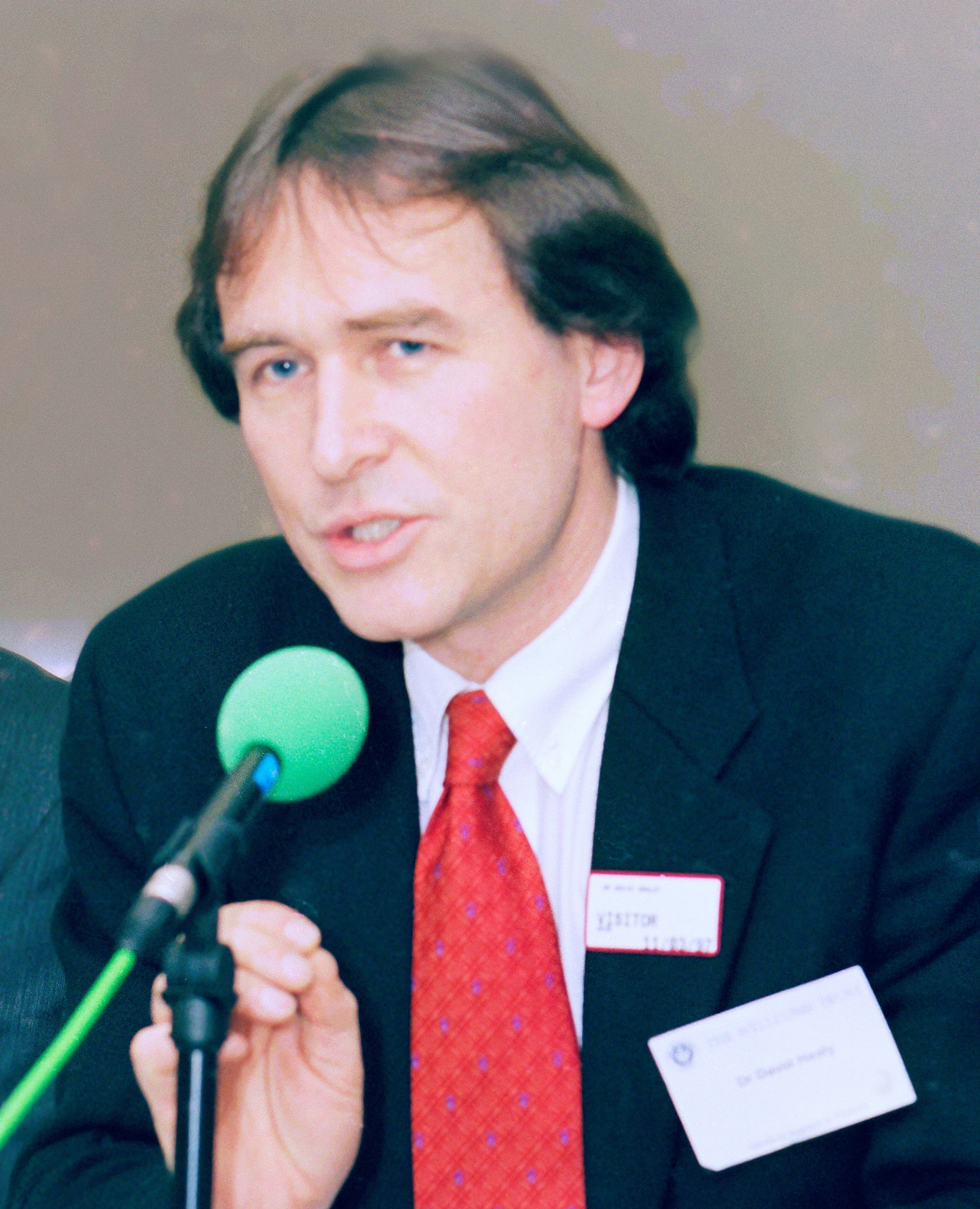 C0000579FA24 WITNESS SEMINAR,DRUGS AND PSYCHIATRIC ILLNES Credit: Wellcome Library, London. Wellcome Images A WITNESS SEMINAR, DRUGS AND PSYCHIATRIC ILLNESS,ORGANISED BY DR TILLI TANSEY AND THE HISTORY OF 20TH CENTURY MEDICINE GROUP ON THE 11TH MARCH 1997. THE MEETING WAS CHAIRED BY DR DAVID HEALY. Published: - Copyrighted work available under Creative Commons by-nc 2.0 UK